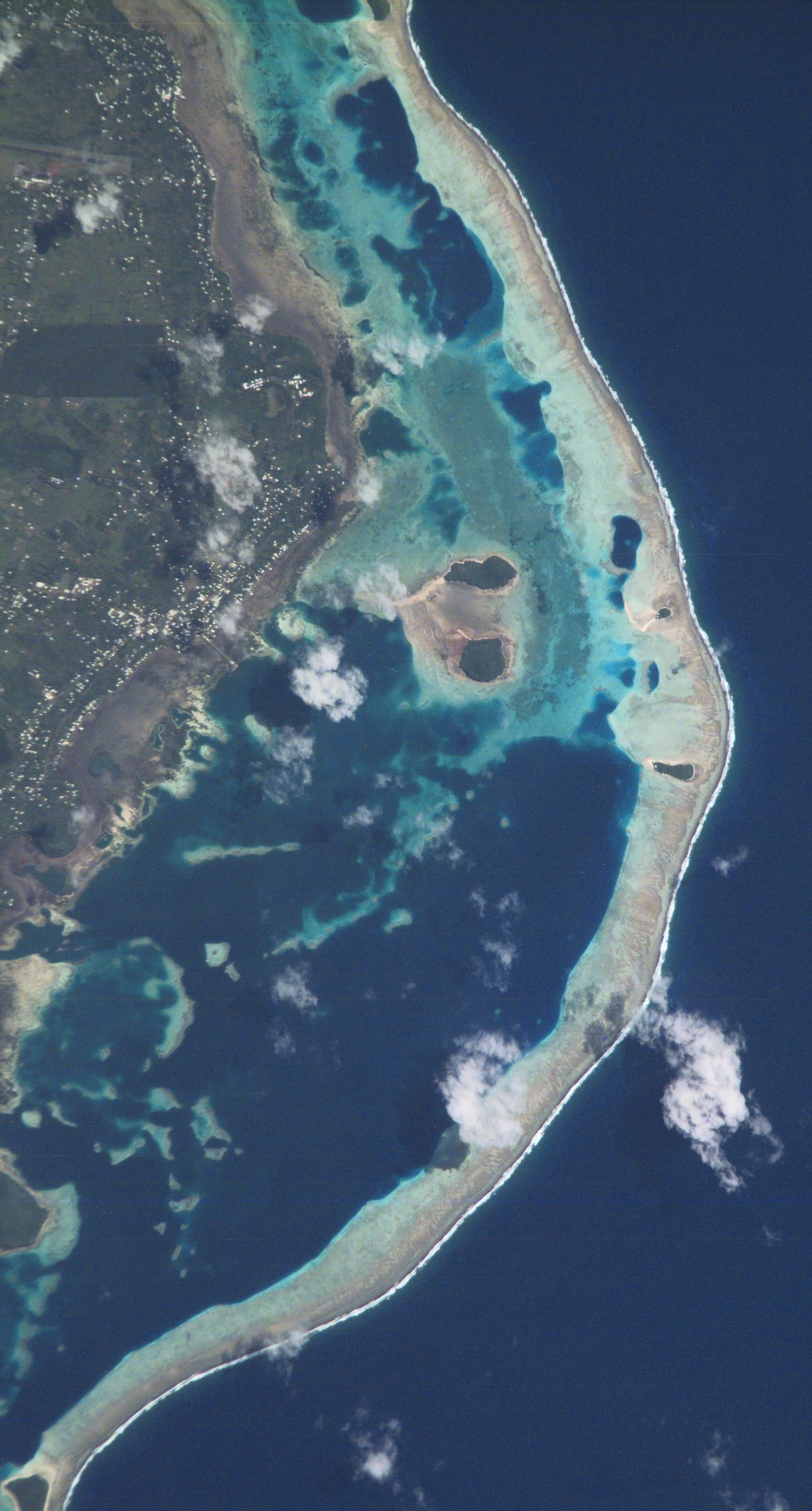 Satellite picture of Wallis island (Hahake district and the lagoon with the following islets: Luaniva, Fugalei, Nukuhione, Nukuhifala). The Hihifo airstrip is also visible in the upper left corner. Cropped and rotated picture